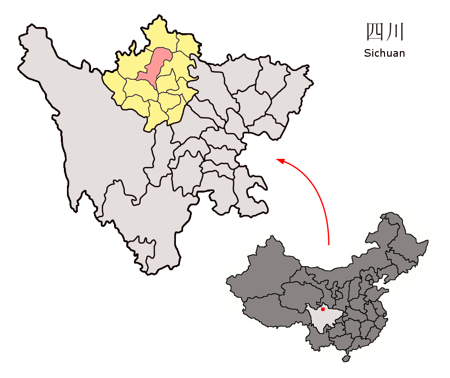 Location of Hongyuan County (pink) and Ngawa Prefecture (yellow) within Sichuan province of China Map drawn in september 2007 using various sources, mainly : Sichuan province administrative regions GIS data: 1:1M, County level, 1990 Sichuan Counties map from